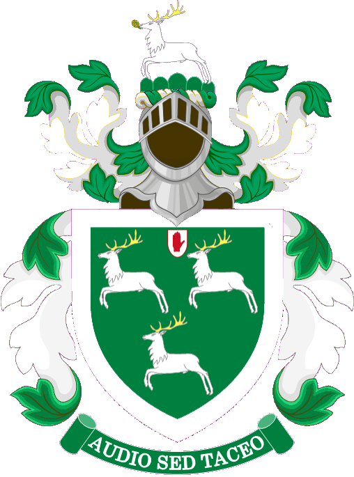 The armorial achievement of the Trollope baronets of Casewick